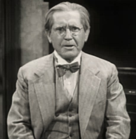 J. M. Kerrigan in Undercover Agent - cropped screenshot